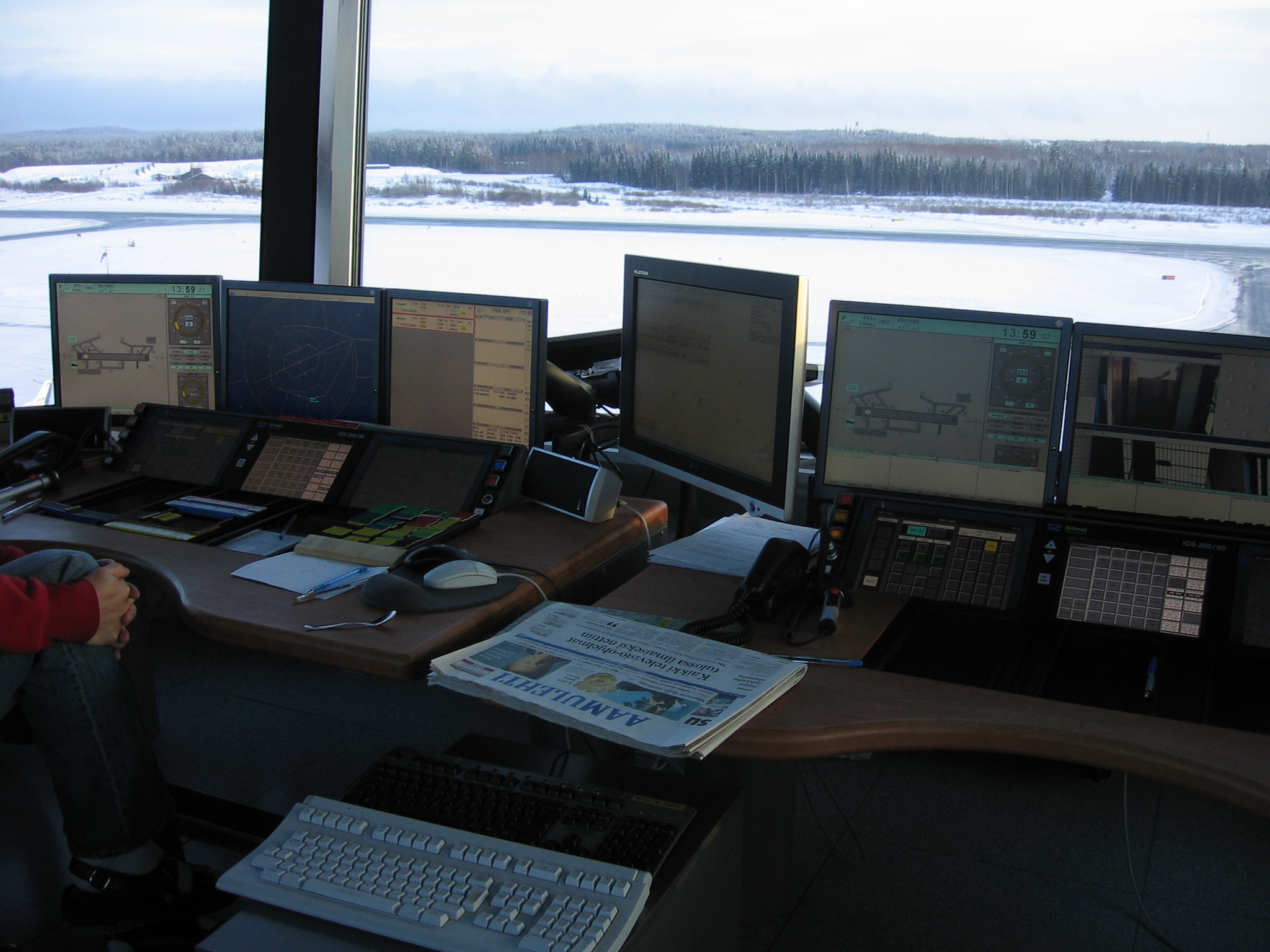 Picture from the new airfield control tower at Tampere-Pirkkala Airport